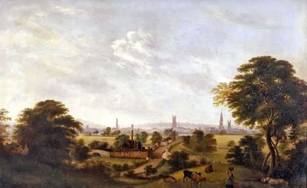 View of Derby from Nottinghan Road. Derby Canal to left.